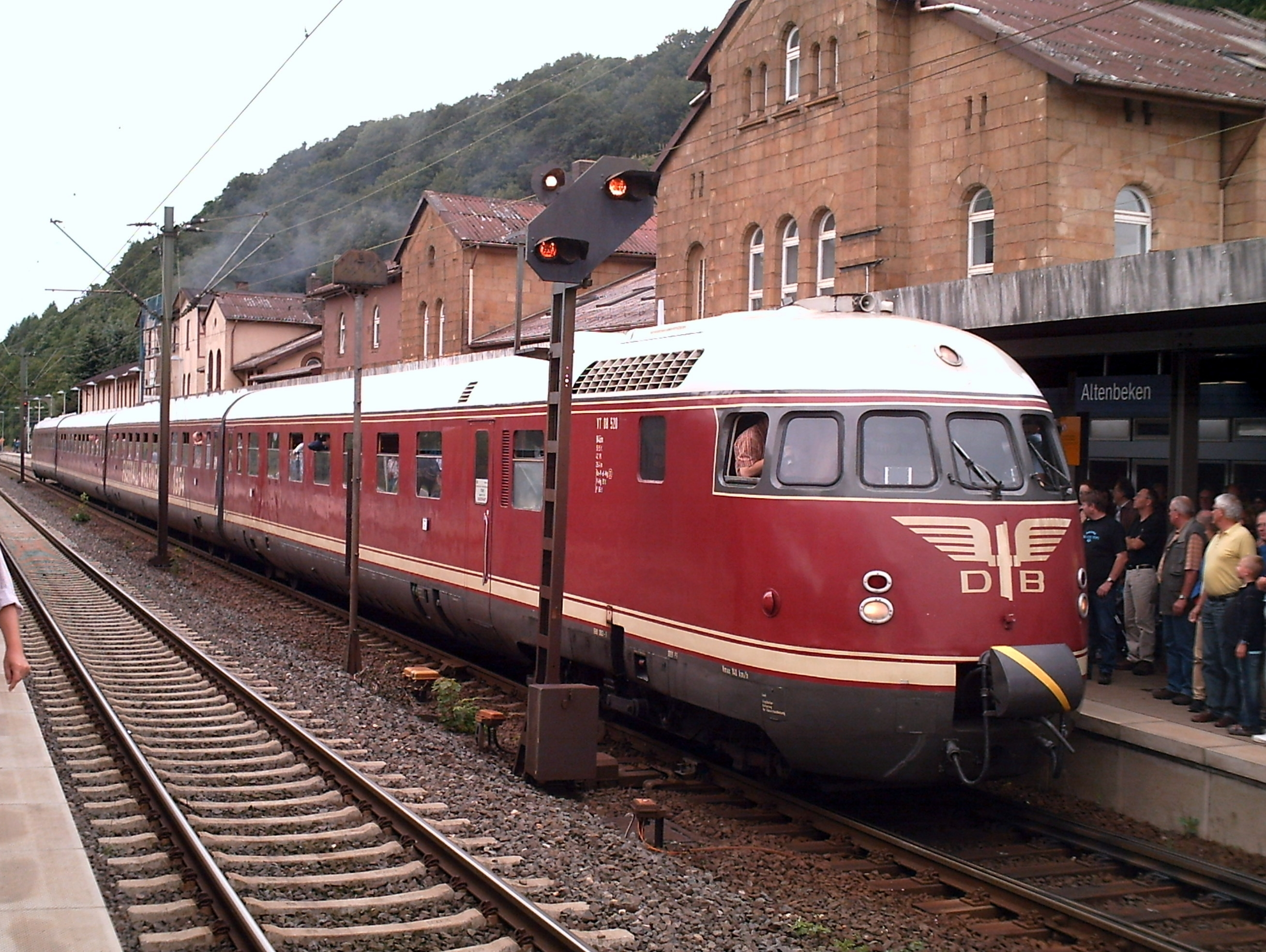 Vivat Viaduct 2007 in D-33184 Altenbeken, Germany: The original Football-(Soccer)-World-Championship-Train from 1954 in the station of Altenbeken